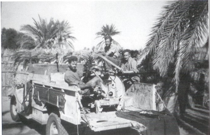 20mm Breda mounted on 30 cwt Chevrolet 1533x2. Category:Groups of World War II Category:Special forces of New Zealand Category:Special forces units and formations Category:Military units and formations established in 1940 Long Range Desert Group Long Range Desert Group